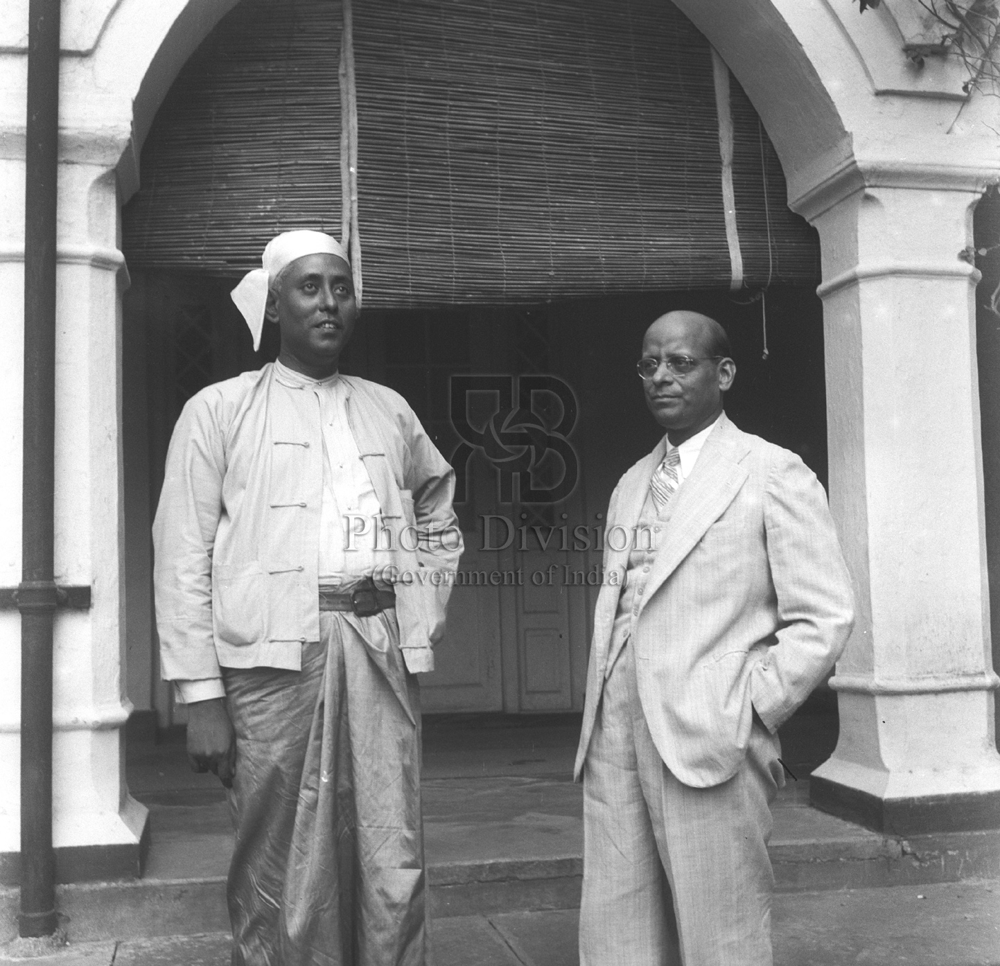 U. Win, Burma's then High Commissioner to India (left), photographed with R.R. Saksena, the then Joint Secretary, External Affairs & Commonwealth Relations Ministry, Government of India in New Delhi on October 18, 1947.